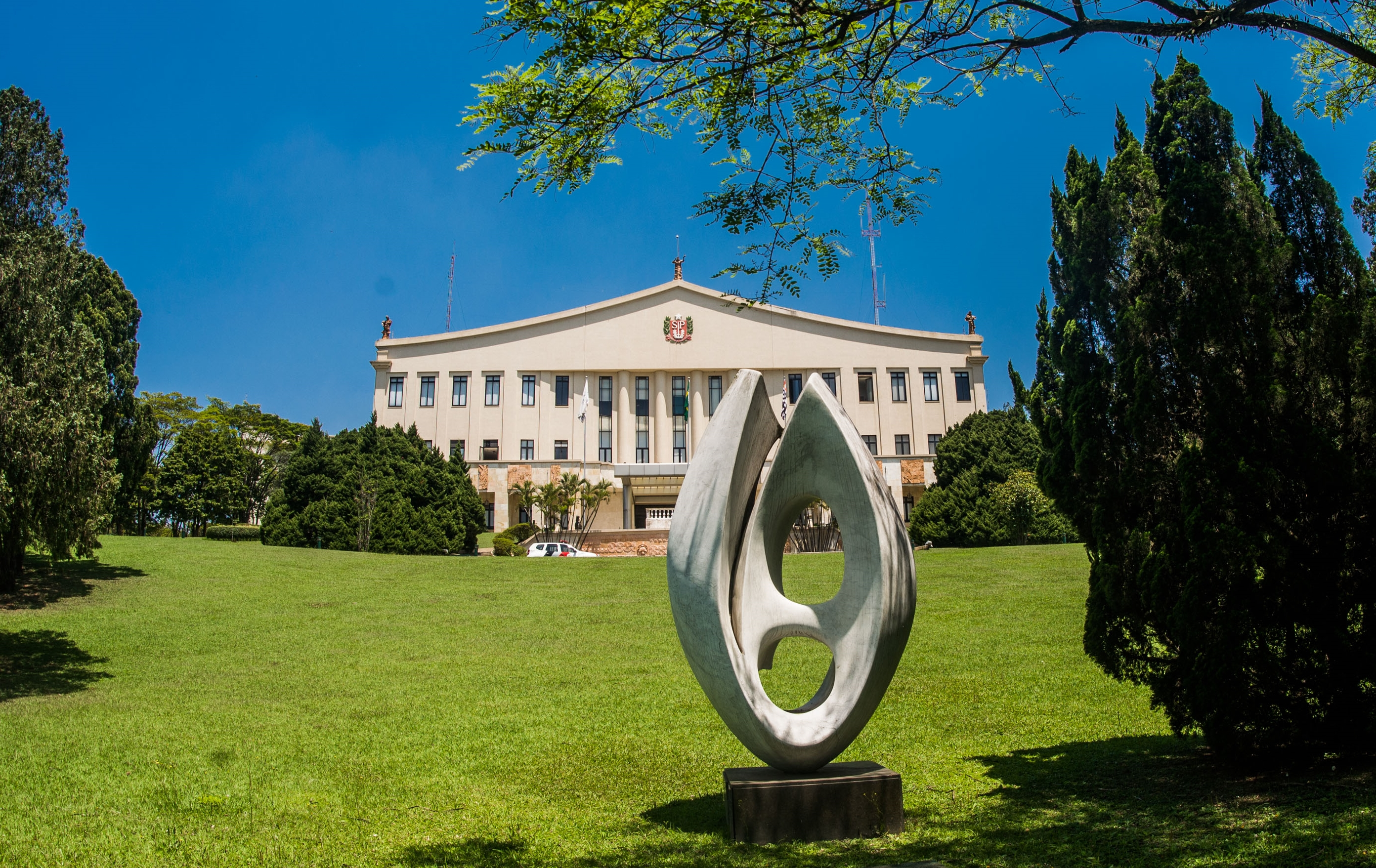 Arvores plantadas no Palácio dos Bandeirantes por Secretários e Governadores. Local: São Paulo/SP. Data: 19/10/2016. Foto: Alexandre Carvalho/A2img